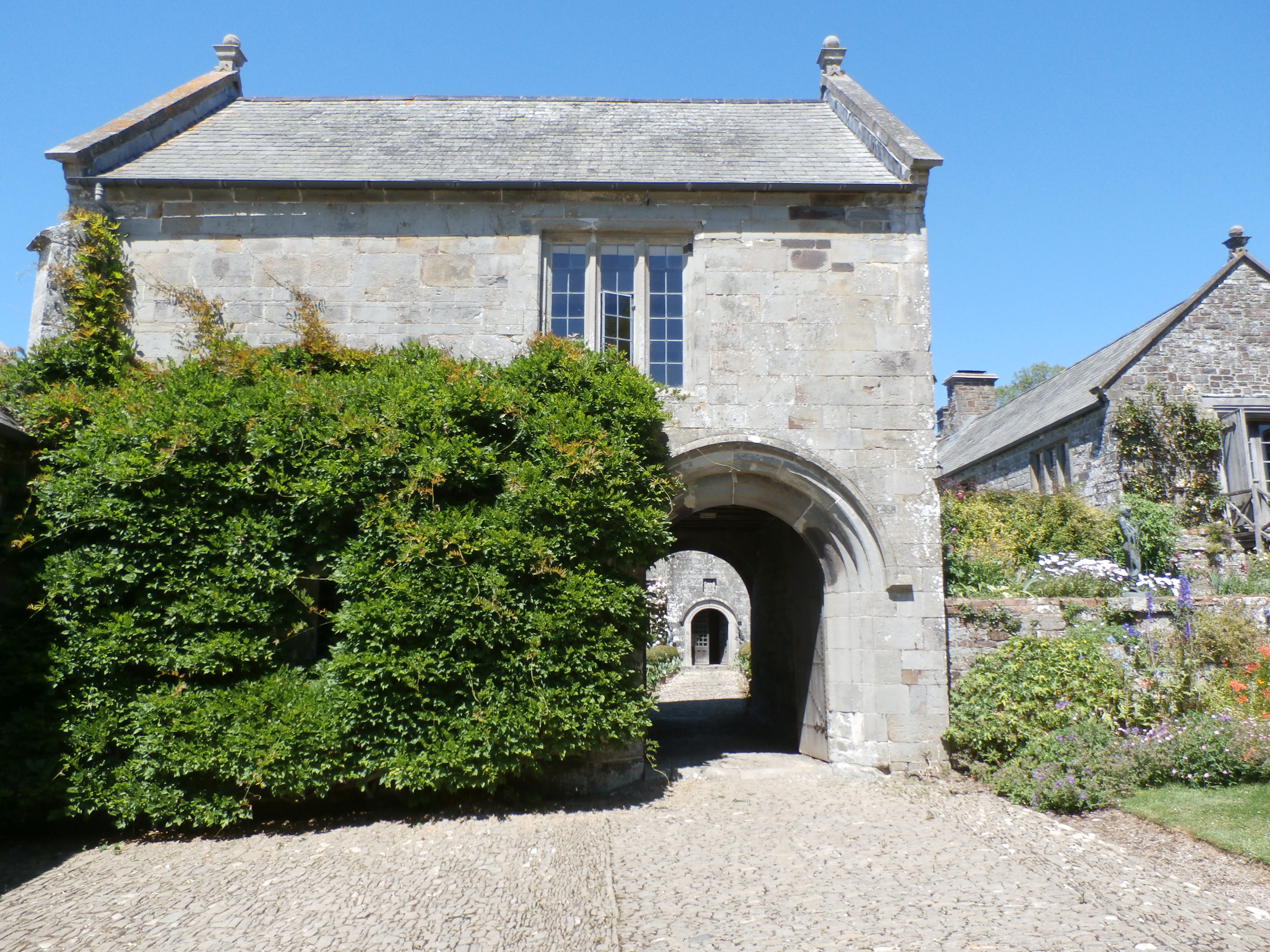 Gatehouse, Colleton Barton, Chulmleigh, Devon, viewed from south, probably C15 remodelled in circa C16 or early C17, minor alterations probably of the early C19 and repaired in C20, with former 15th century chapel above. Front door to Colleton Barton visible through gateway beyond. (Listed buildings text[1])